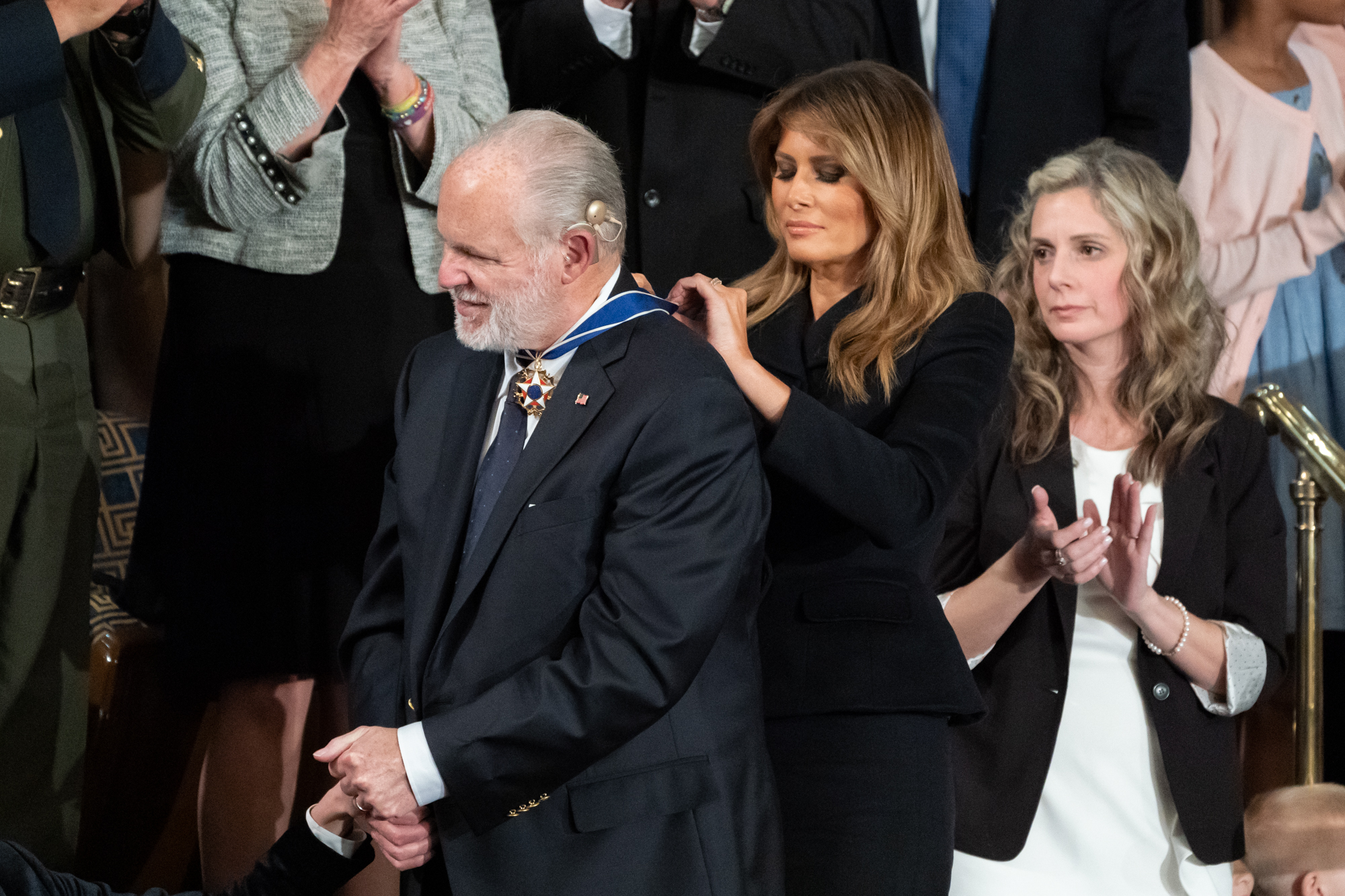 First Lady Melania Trump presents the Presidential Medal of Freedom to gallery guest Rush Limbaugh during President Donald J. Trump’s State of the Union address Tuesday, Feb. 4, 2020, in the House chamber at the U.S. Capitol in Washington, D.C. (Official White House Photo by Andrea Hanks)